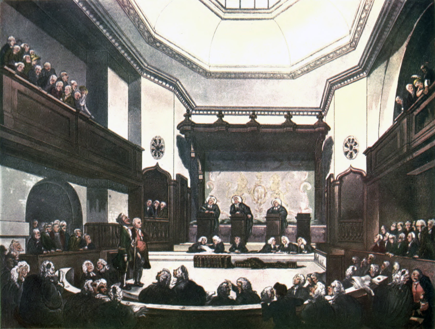 Court of Common Pleas, Westminster Hall